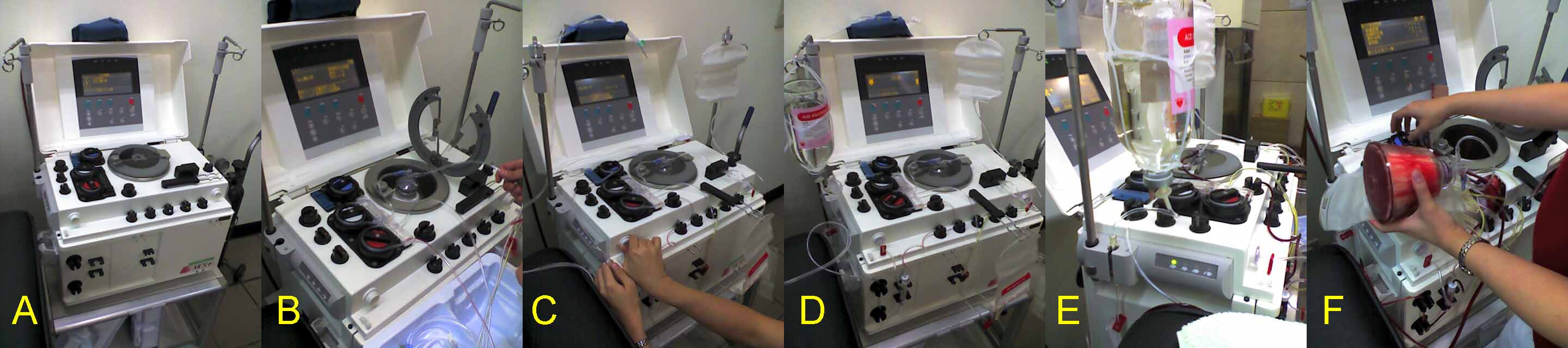 (Original by Toytoy) These pictures were taken by me with my cellphone camera. I was the blood donor. The apheresis machine before use. The nurse opened a kit. The blood will be contained and separated inside the kit without touching anything else. The round object at the center is the centrifuge (shaped like a bell). The nurse installs the tubing. The platelet collector bag (right) and the glass bottle of anticoagulant (left). In this case, they used a blood bag without a small disc-shaped white cell filter. The machine in operation. The green light on the far left indicates everything is normal. The nurse removed the kit from the machine. They will give you a telephone number. If you lied to them about your medical history you may call them later so they can destroy that bag of blood before it is being used. Otherwise, enjoy the free cold milk they give you and remember to come again two weeks later. The test report will usually arrive within 48 hours if you let them send you an e-mail. Time: 2004/12/02 Place: The MRT Station, Taipei, Taiwan. It's my 172nd donation. -- Toytoy 02:12, Dec 4, 2004 (UTC)